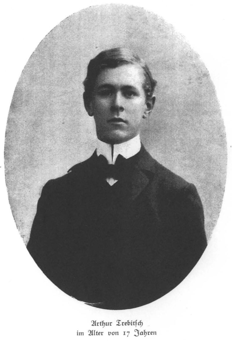 Arthur Trebitsch at the age of 17.